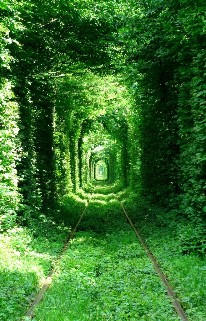 The "Green Mile Tunnel" or "Tunnel of Love" near Klevan in oblast de Rivne, Ukraine, is a former industrial railway now disused, surrounded by green arches and favorable for couples romantic walks.